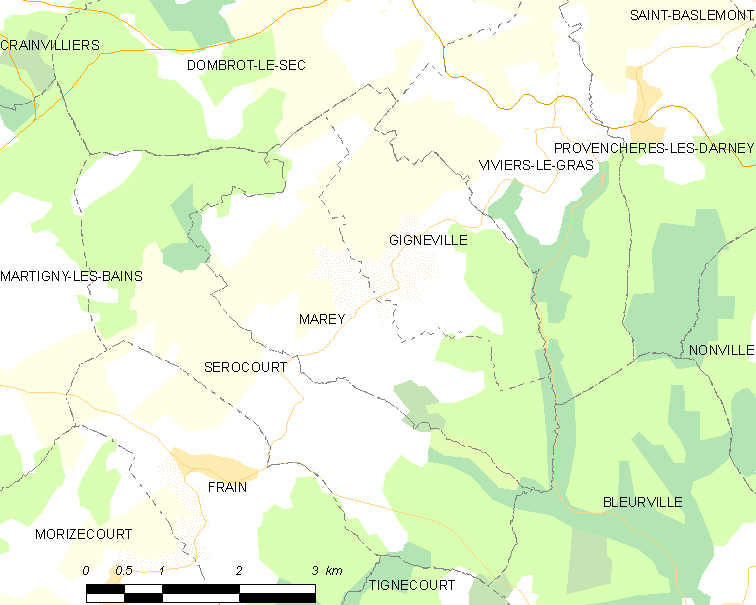 Map of French municipality Marey